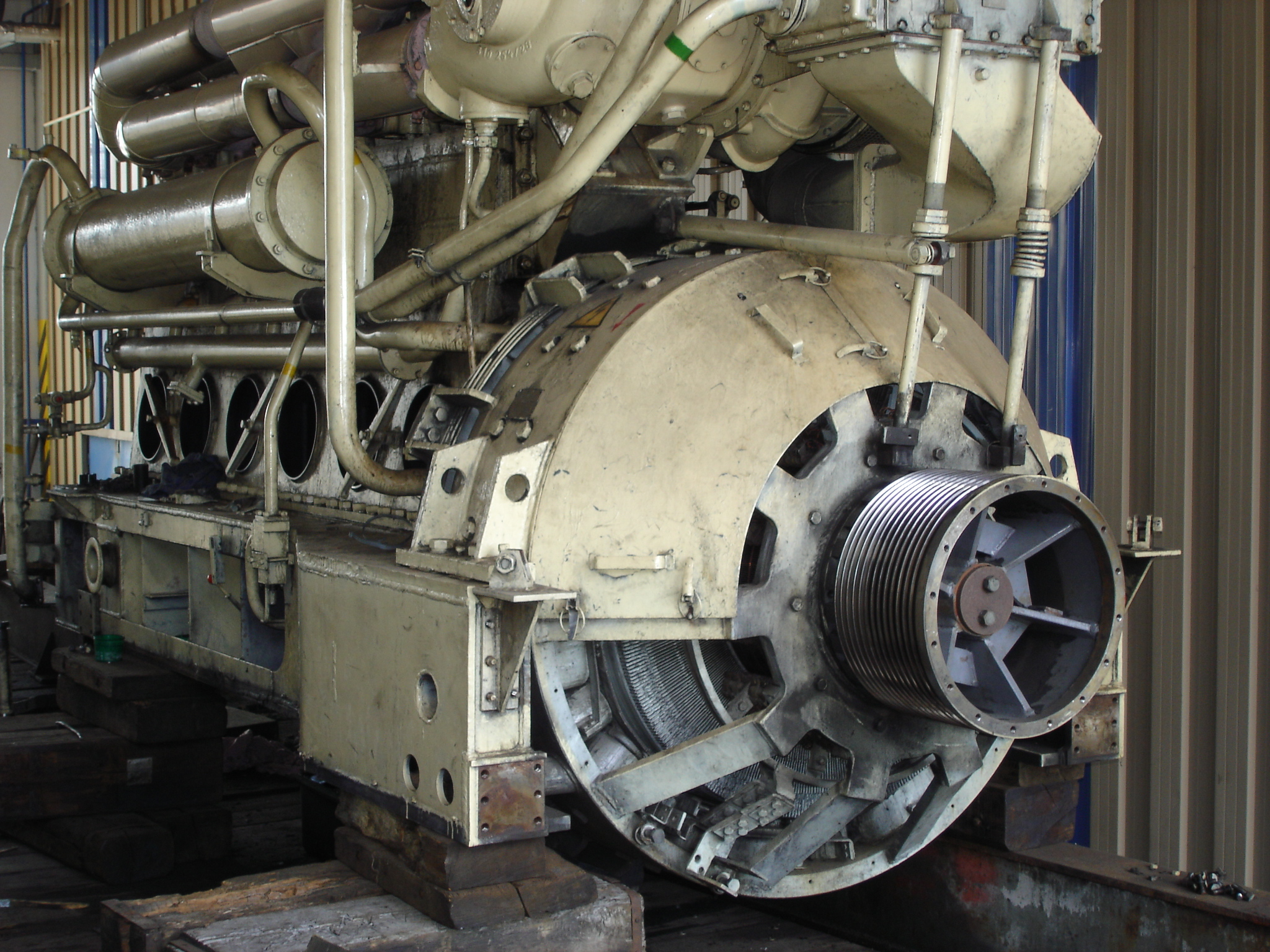 Supercharged 6-cylinder diesel engine K6S310DR used in locomotive class 751